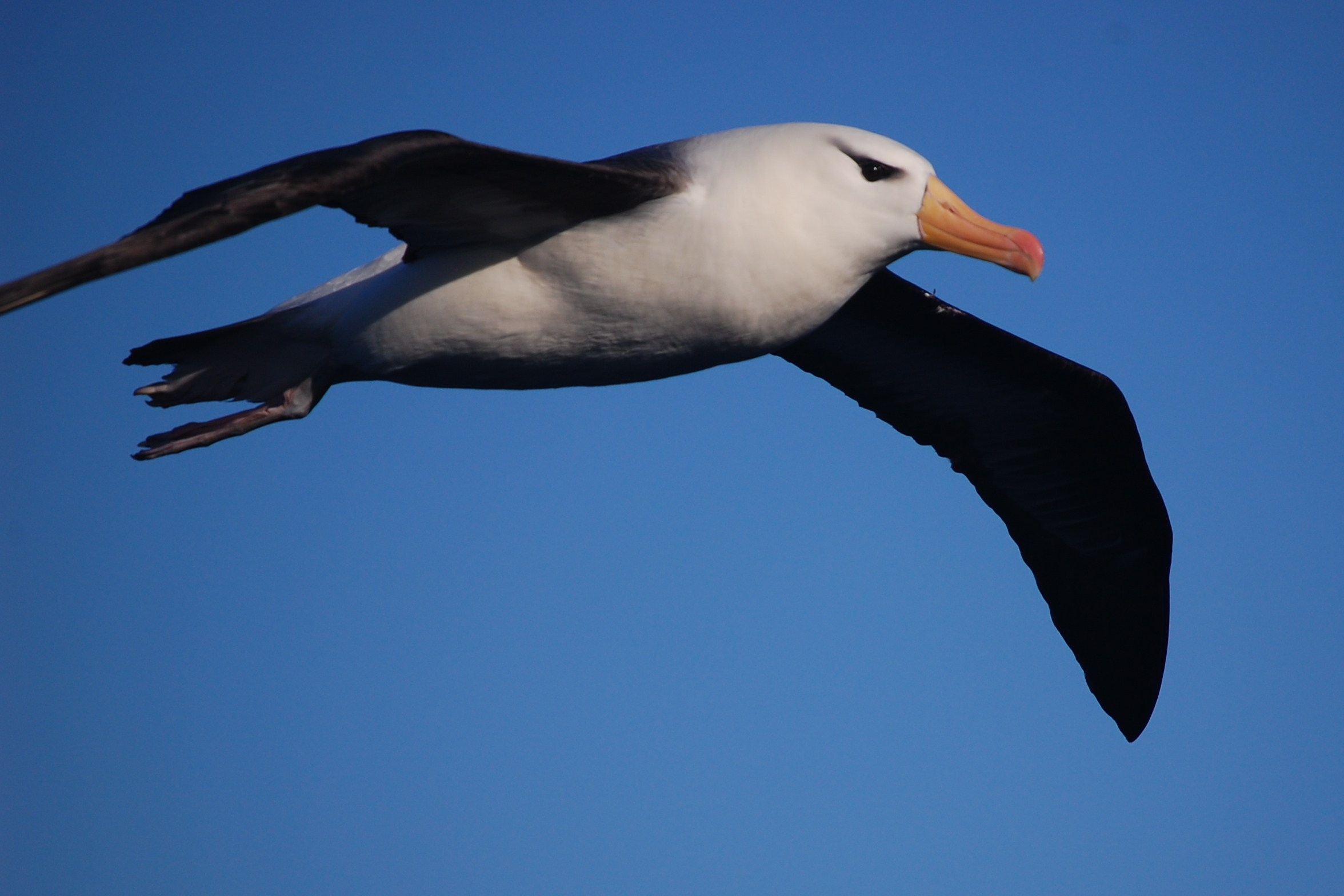 A Black-browed Albatross flying in Southern Ocean, Drakes Passage.